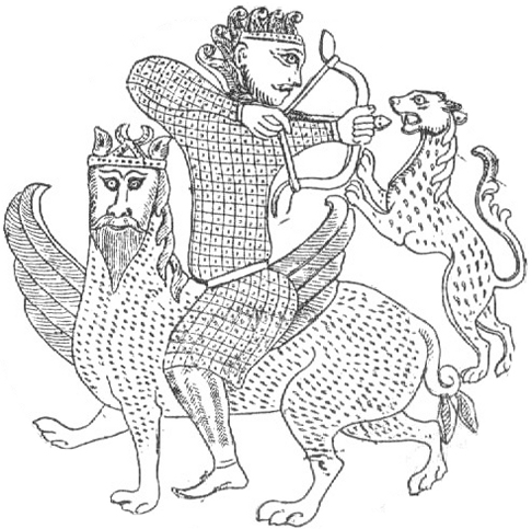 Ewer (jug) No. 2 from Treasure of Nszm